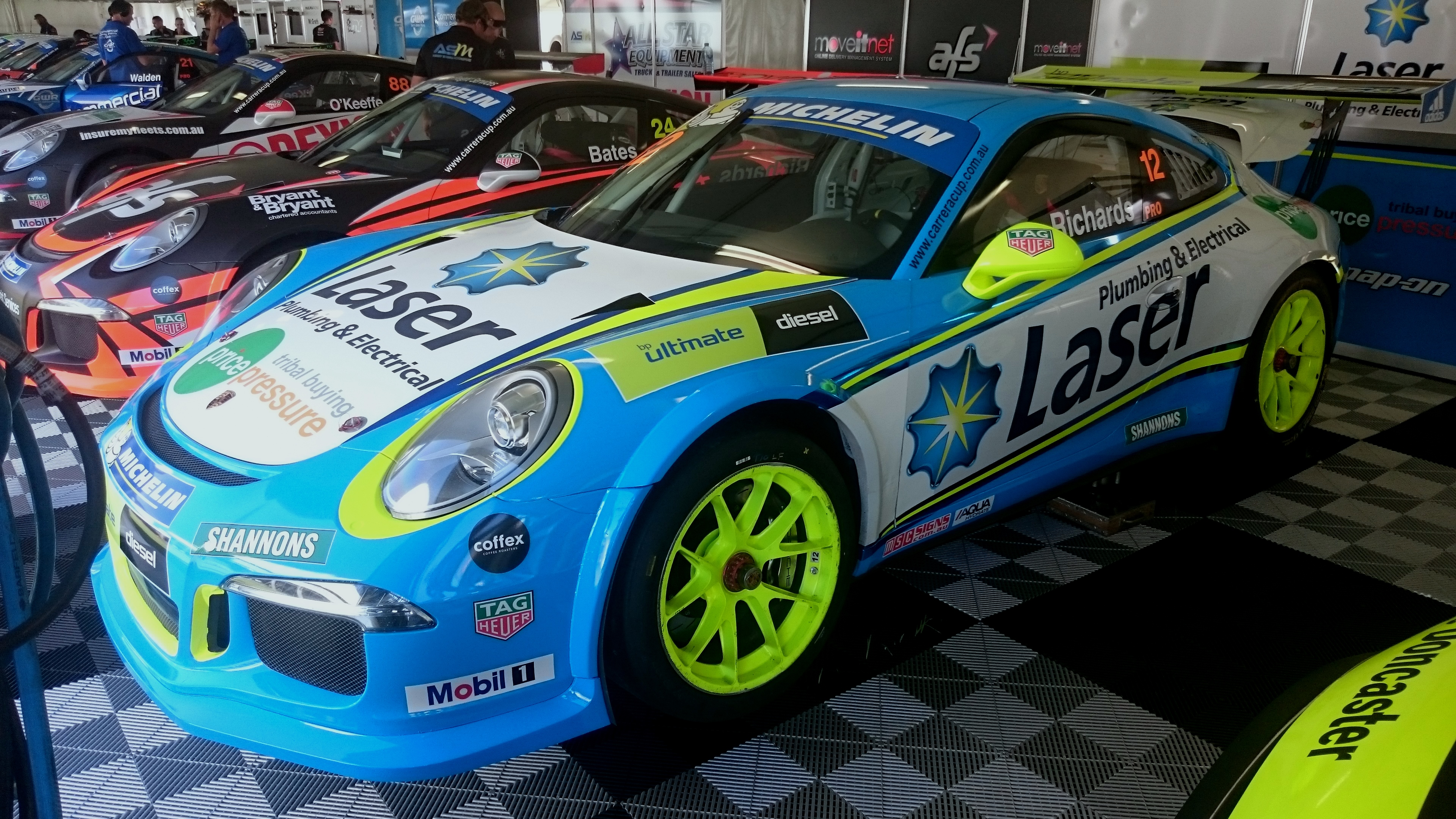 The Porsche 911 GT3 Cup Type 991 of Steven Richards. Adelaide Parklands Circuit, Round 1, 2016 Porshe Carrera Cup Australia.